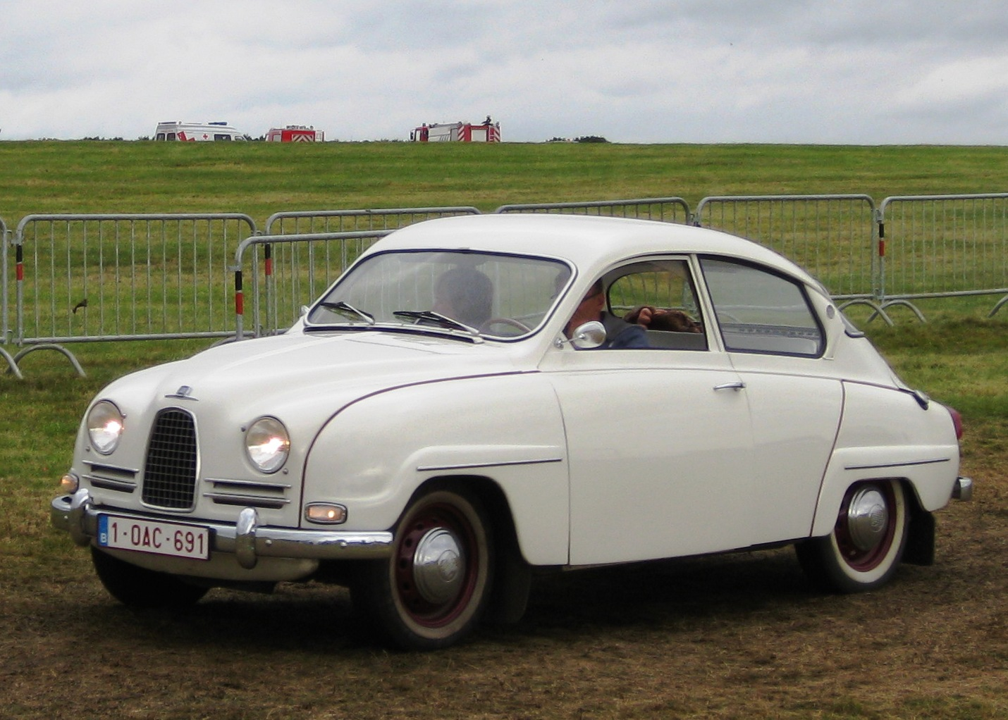 Saab 96 in Vlaams-Brabant